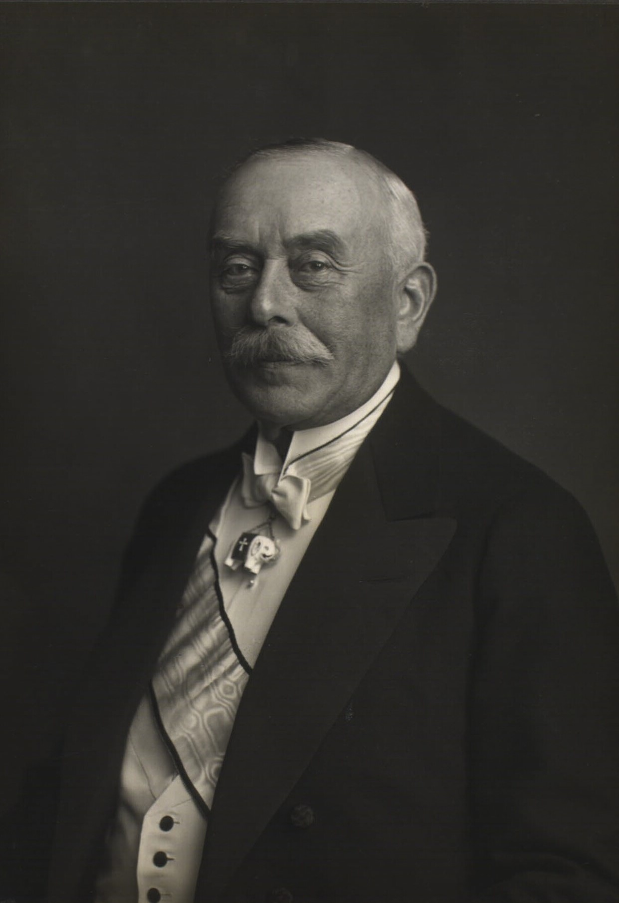 Danish Foreign Minister, estate owner, count Frederik Christopher Otto Raben-Levetzau (1850-1933)